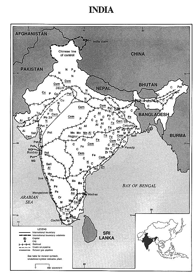 U.S. Geological Survey Map of the mineral deposits in India